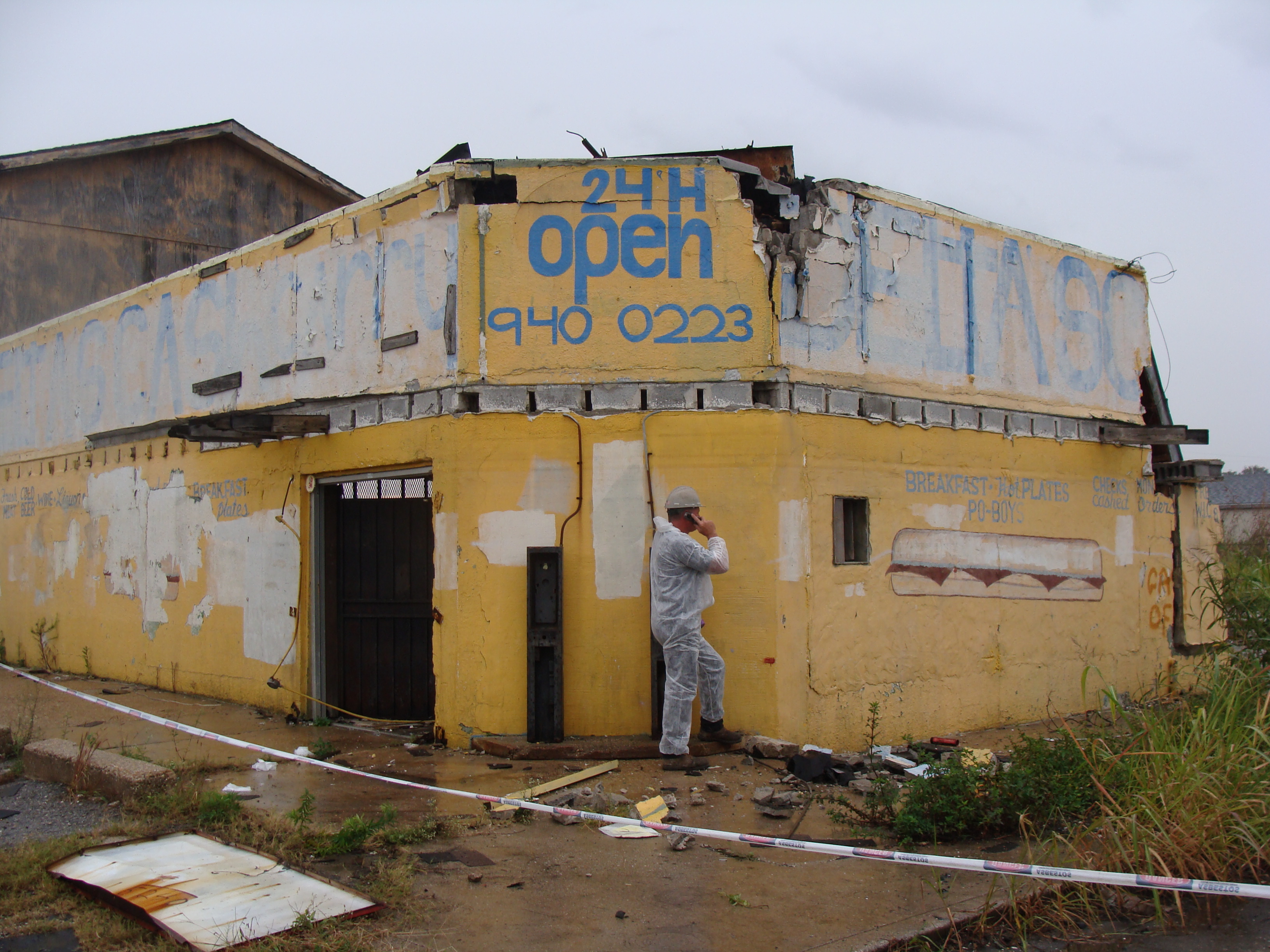 Ruins of the Delta Super Market, New Orleans. In ruins since the Katrina levee failure disaster; building is to be demolished.